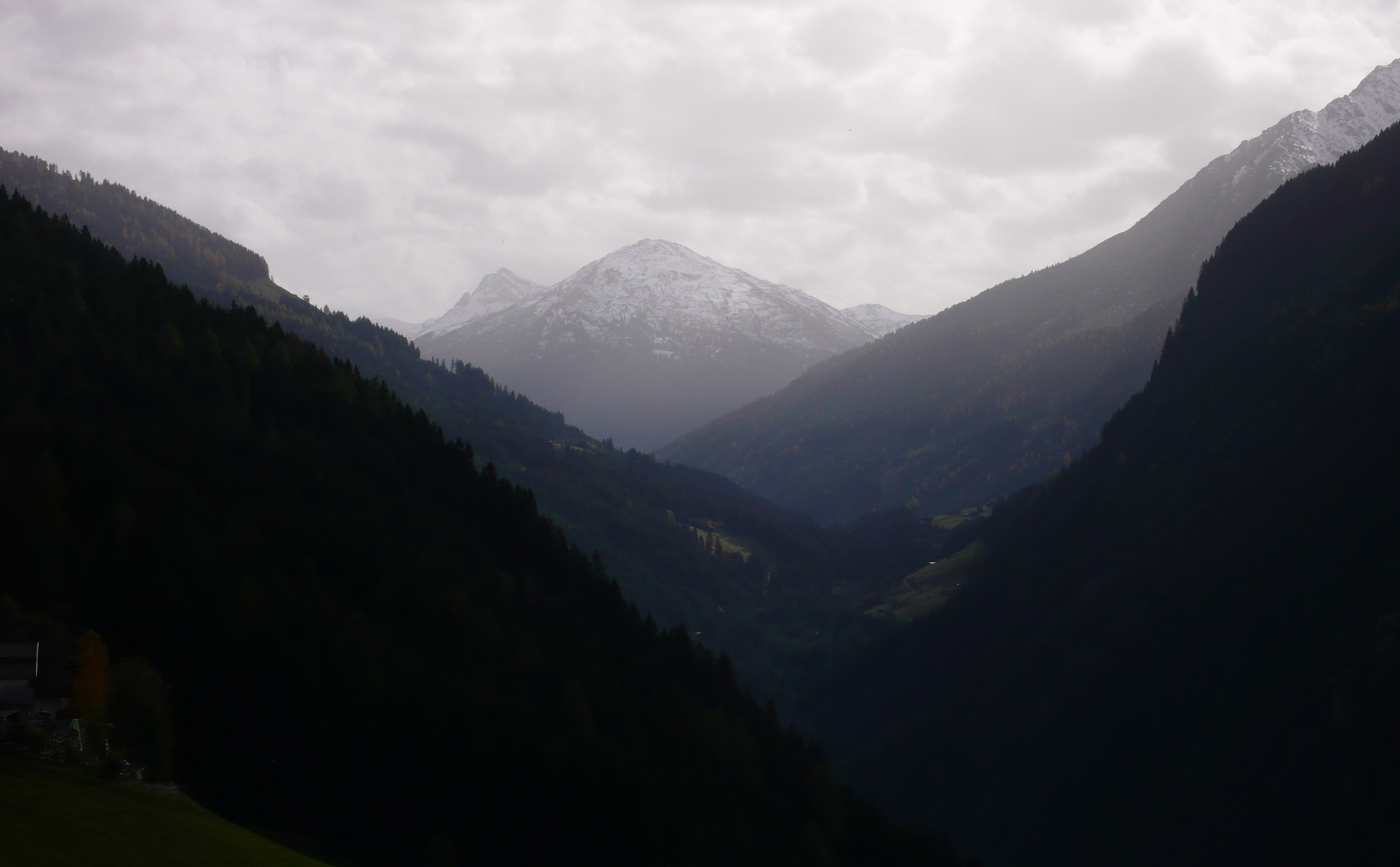 Mölsberg Wattental Tyrol Austrian Alps